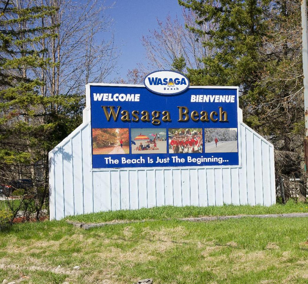 This is the Town of Wasaga Beach's sign to let you know you are entering the town. This one is on the west end of town.